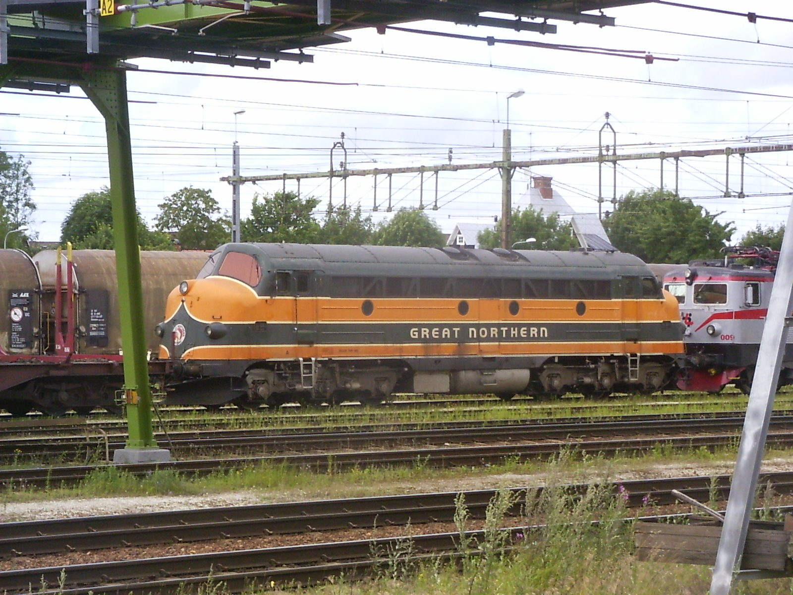 Tågab TMY 106 diesel locomotive, painted in the colors of Great Northern for the movie Dancer in the Dark of Lars von Trier in 1999, spotted at Avesta Krylbo train station in 2009